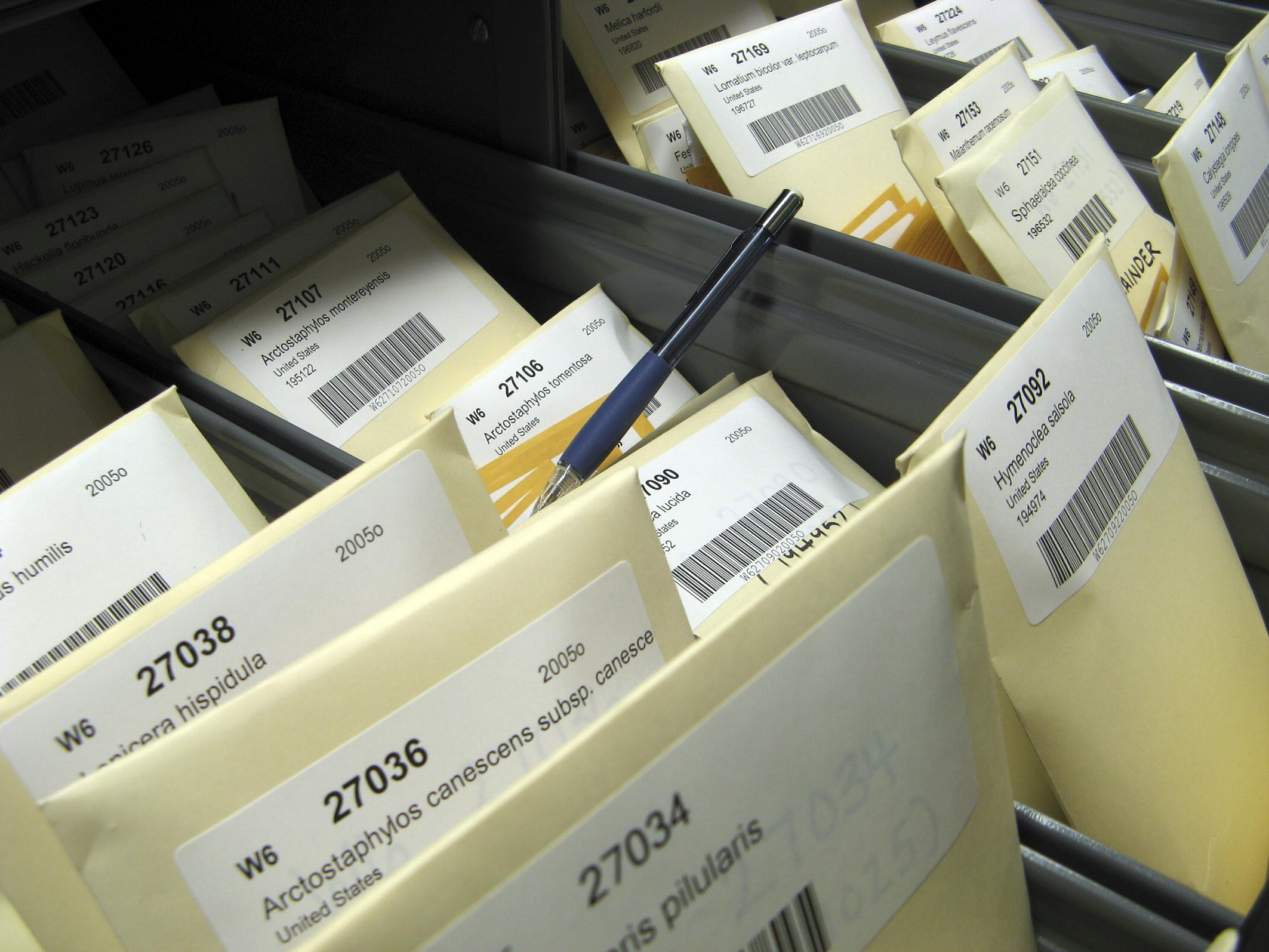 Storing Native Seeds: Packages of native North American accessions in cold storage at the WRPIS. The WRPIS maintains approximately 4,500 accessions of native species, more than 1,500 of which have been acquired in the last five years as part of a cooperative project with the Bureau of Land Management's Seeds of Success Program.